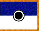 1st Corps Flag